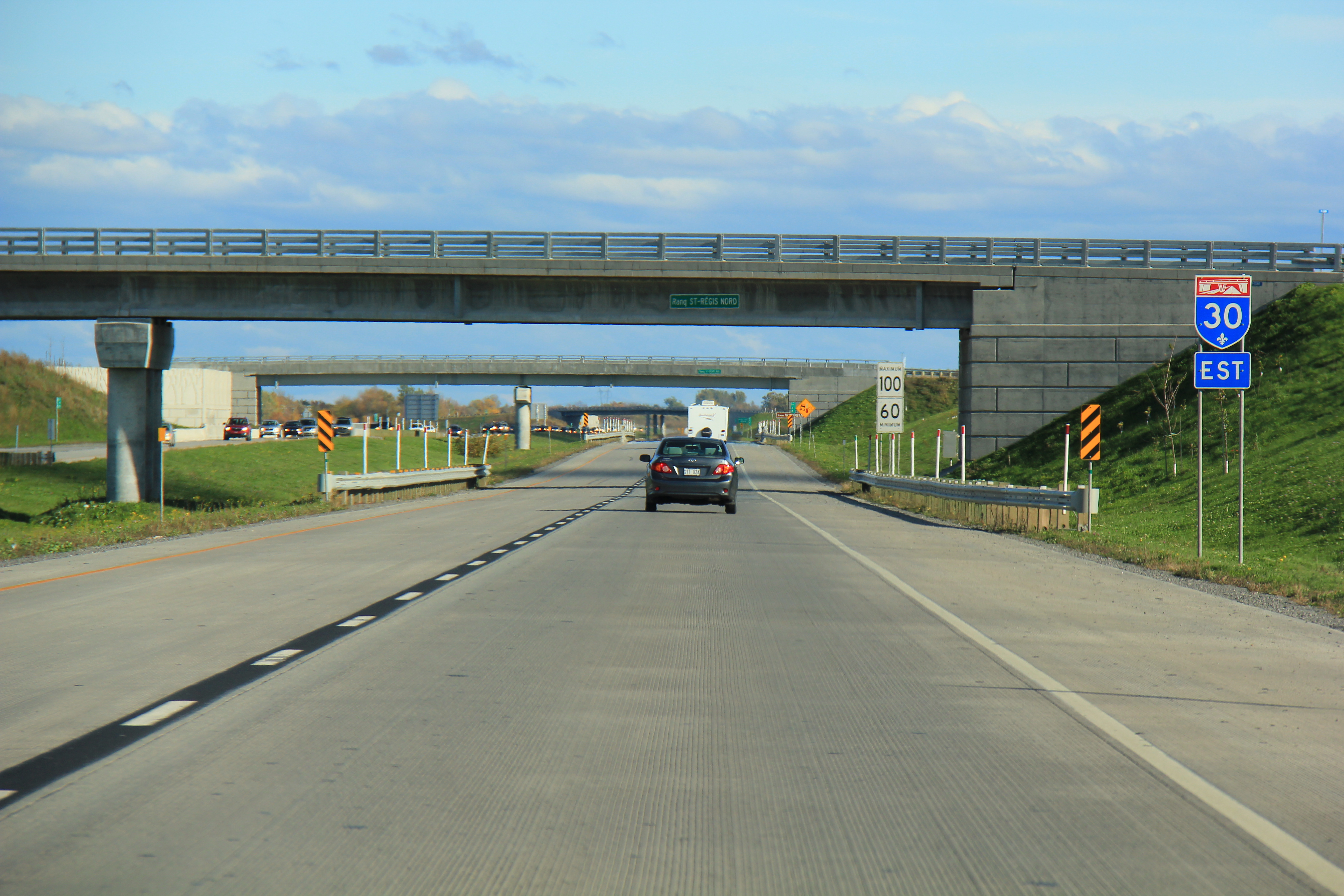 Traffic along eastbound Quebec Autoroute 30 at km 47.8 in Saint-Constant.